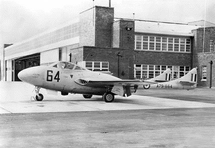 At an airfield, a D.H. Vampire aircraft T-Mk35 (Australia), A79-664 of the RAAF.